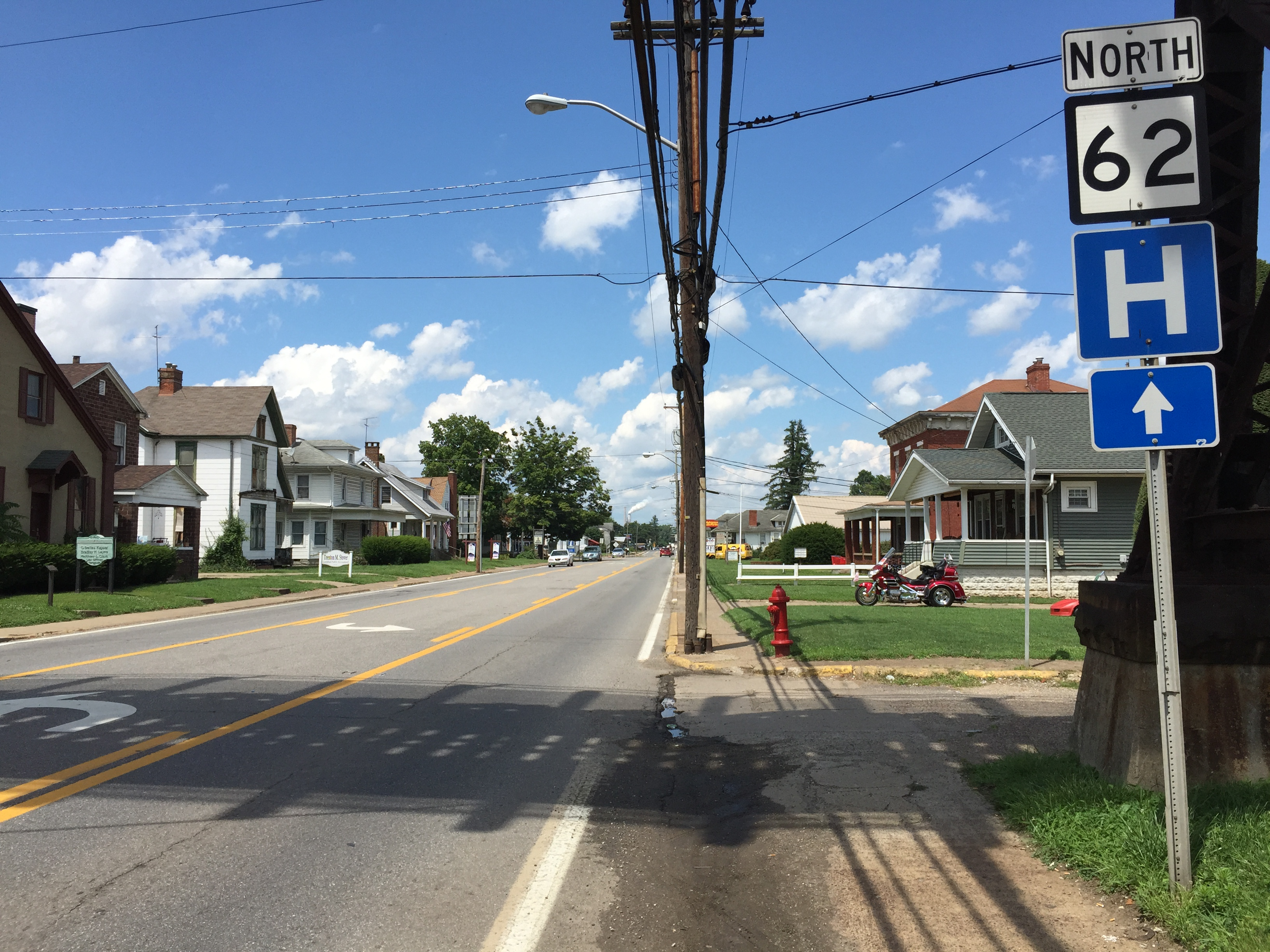 View north along West Virginia State Route 62 (Viand Street) between 6th Street and 8th Street in Point Pleasant, Mason County, West Virginia